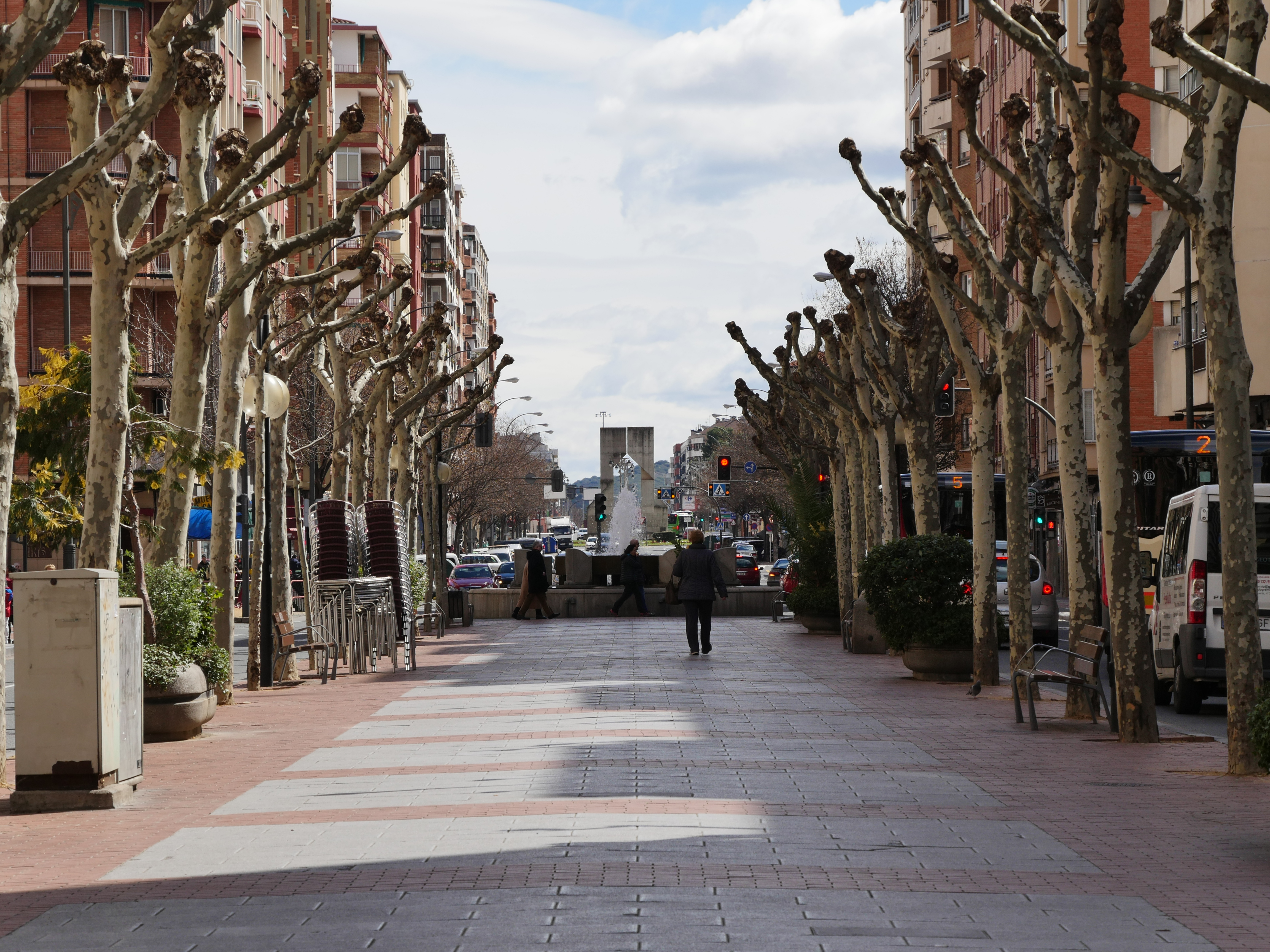 View towards the east of Avenida de La Paz (Peace Avenue), near house number 64 in Logroño, Spain. In the background it can be seen the Fountain at the end of the central walkway called "Metamorfosis" and -beyond that- the Glorieta del IX Centenario del Fuero roundabout.